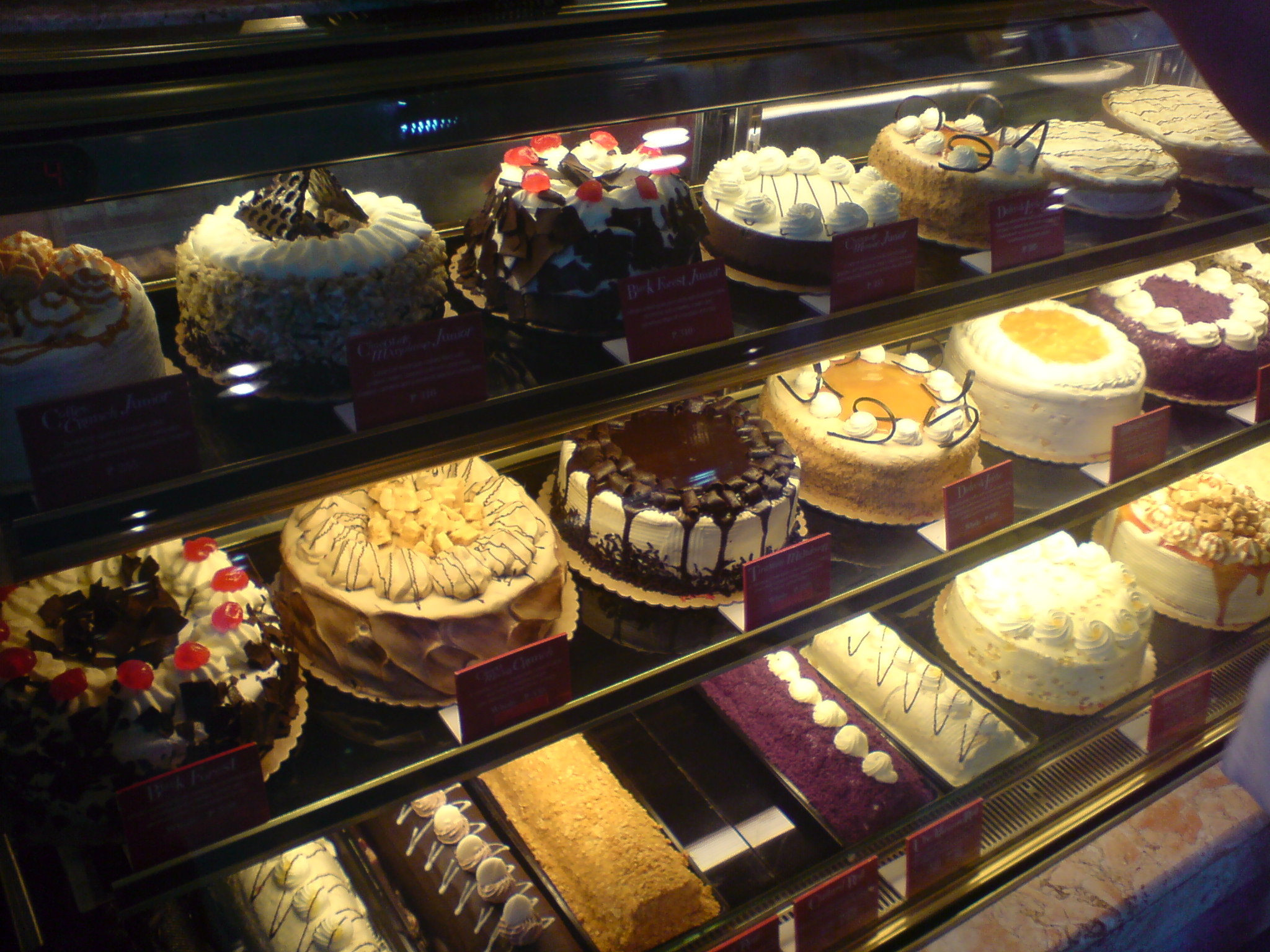 Selection of cakes available from Red Ribbon